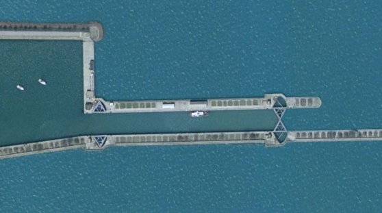 Satellite view of the Chicago Harbor Lock separating the Chicago River (left side of image) from Lake Michigan (right side of image)